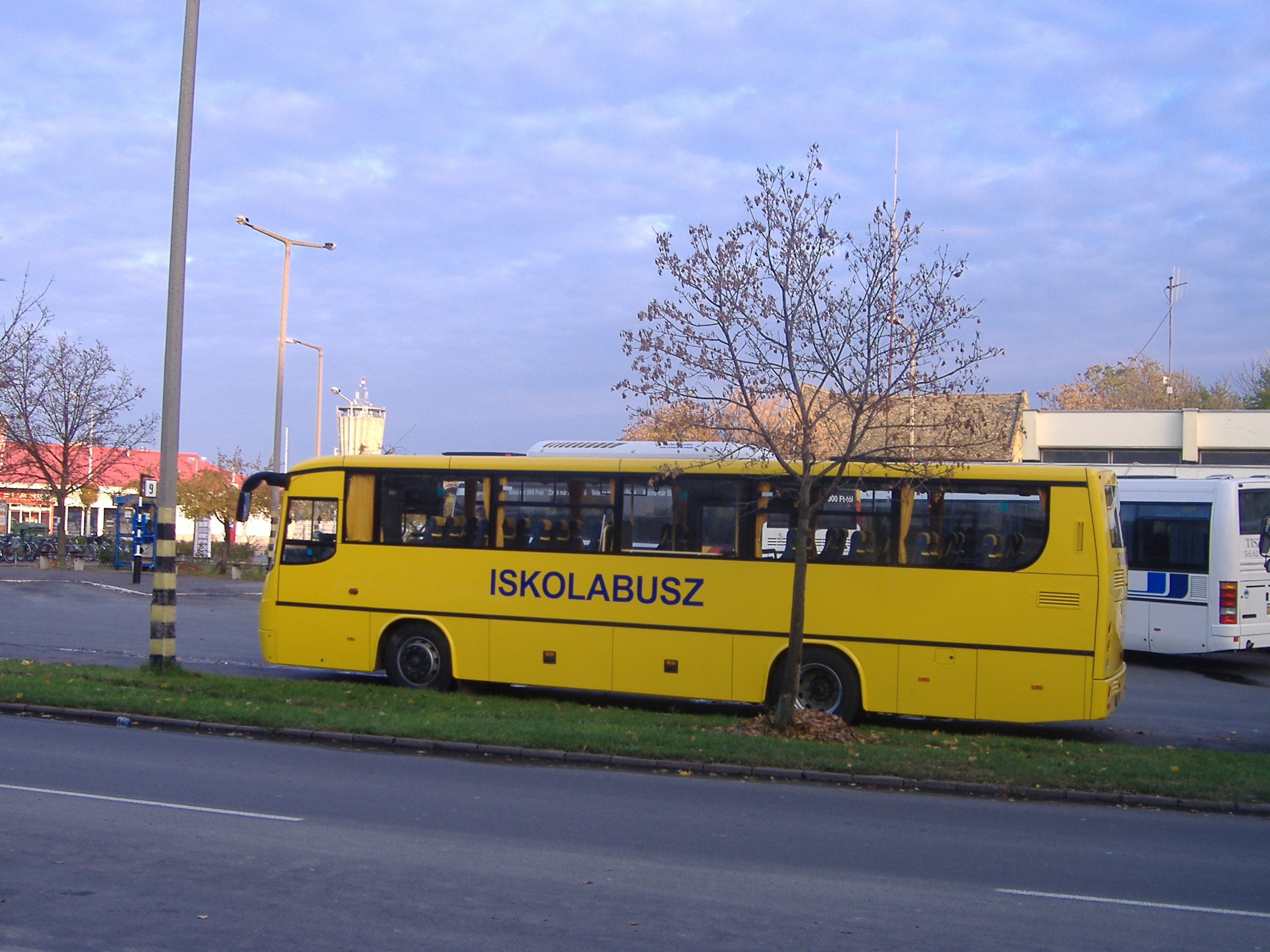 Autosan A1010T Lider school bus in the bus station of Makó, Hungary.